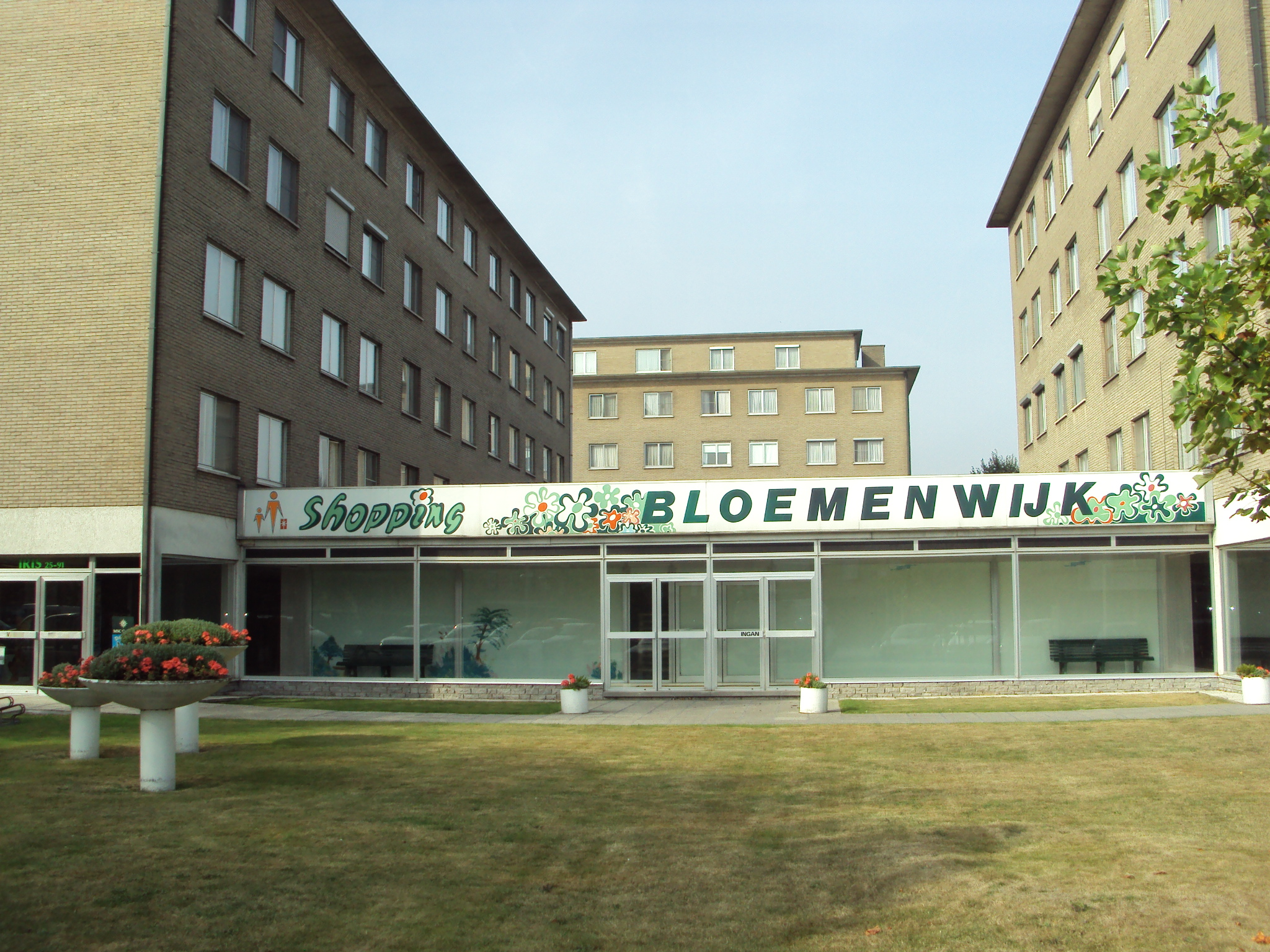 Shopping center Bloemenwijk in Deerlijk